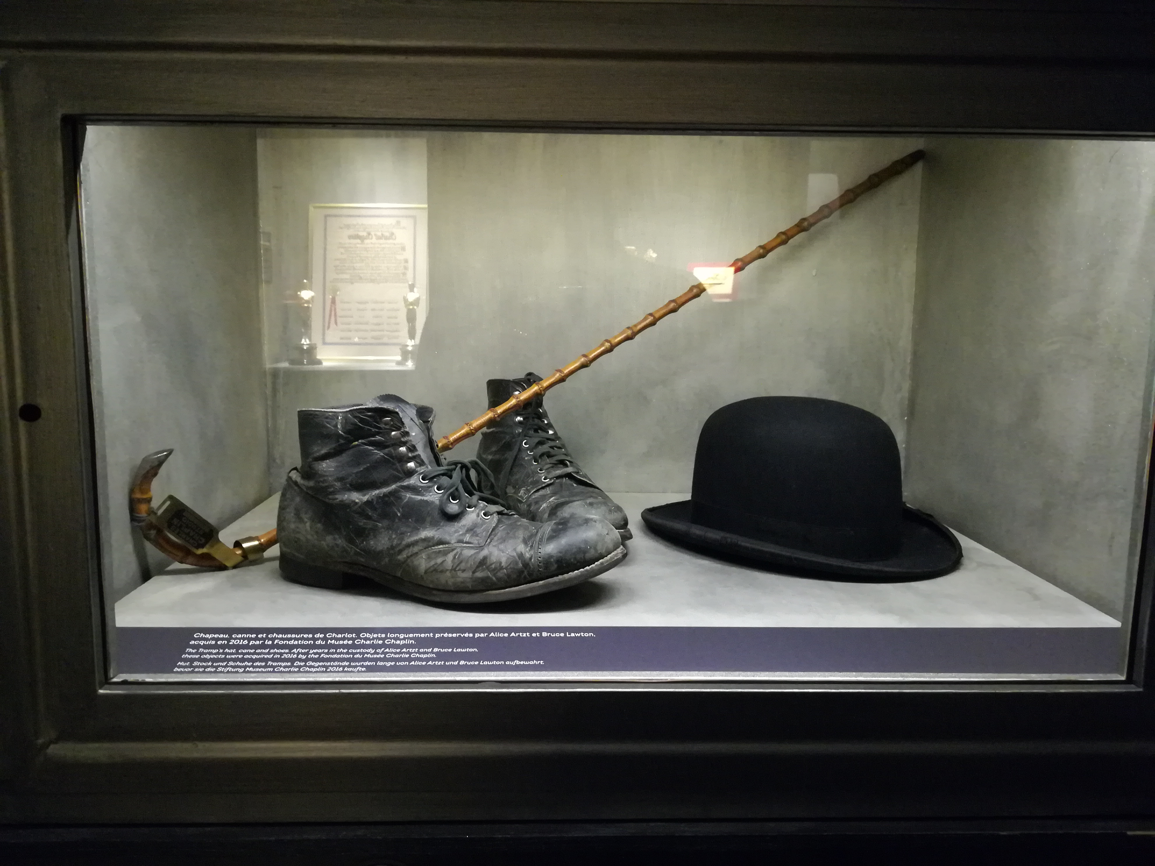 The Tramp's hat, cane and shoes. These objects were acquired in 2016 by Fondation du Musèe Charlie Chaplin after years in custody of Alice Artzt and Bruce Lawton